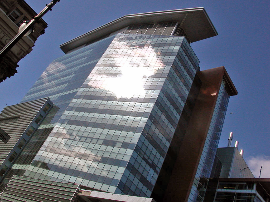 A photo of the EV Building at Concordia University in Montreal.